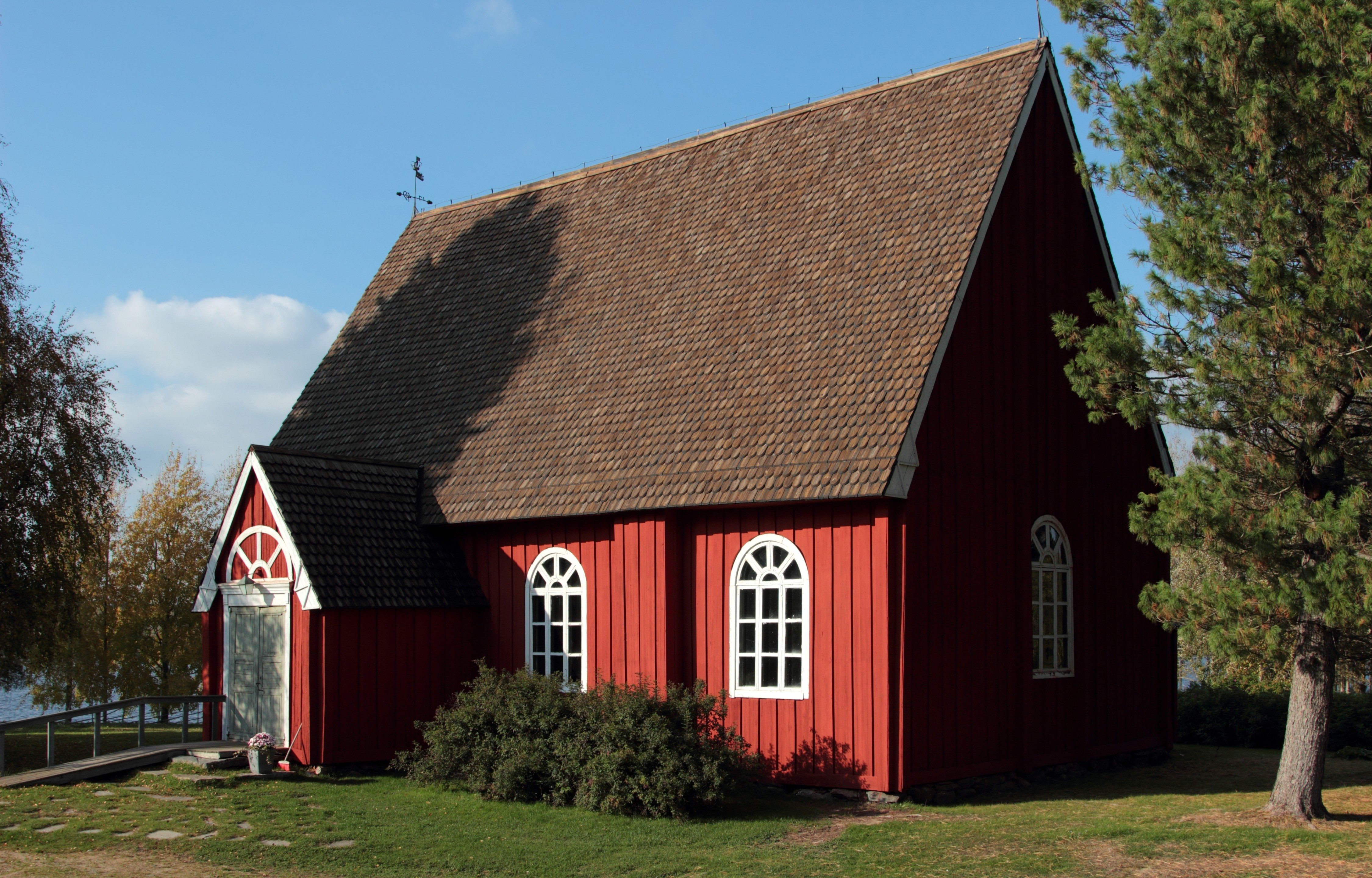 The old church of Tervola.